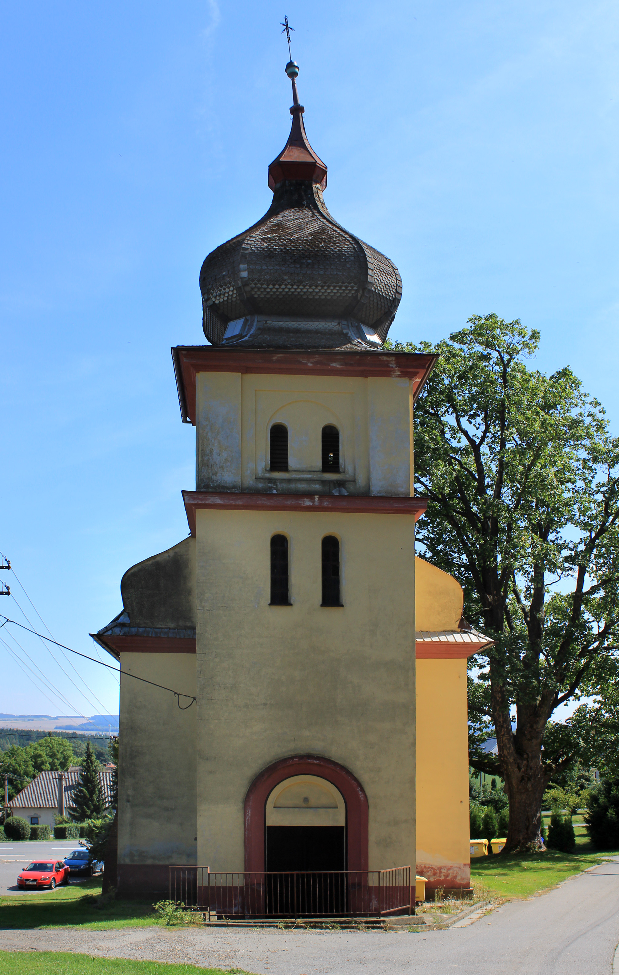 Church in Javorník, Czech Republic.